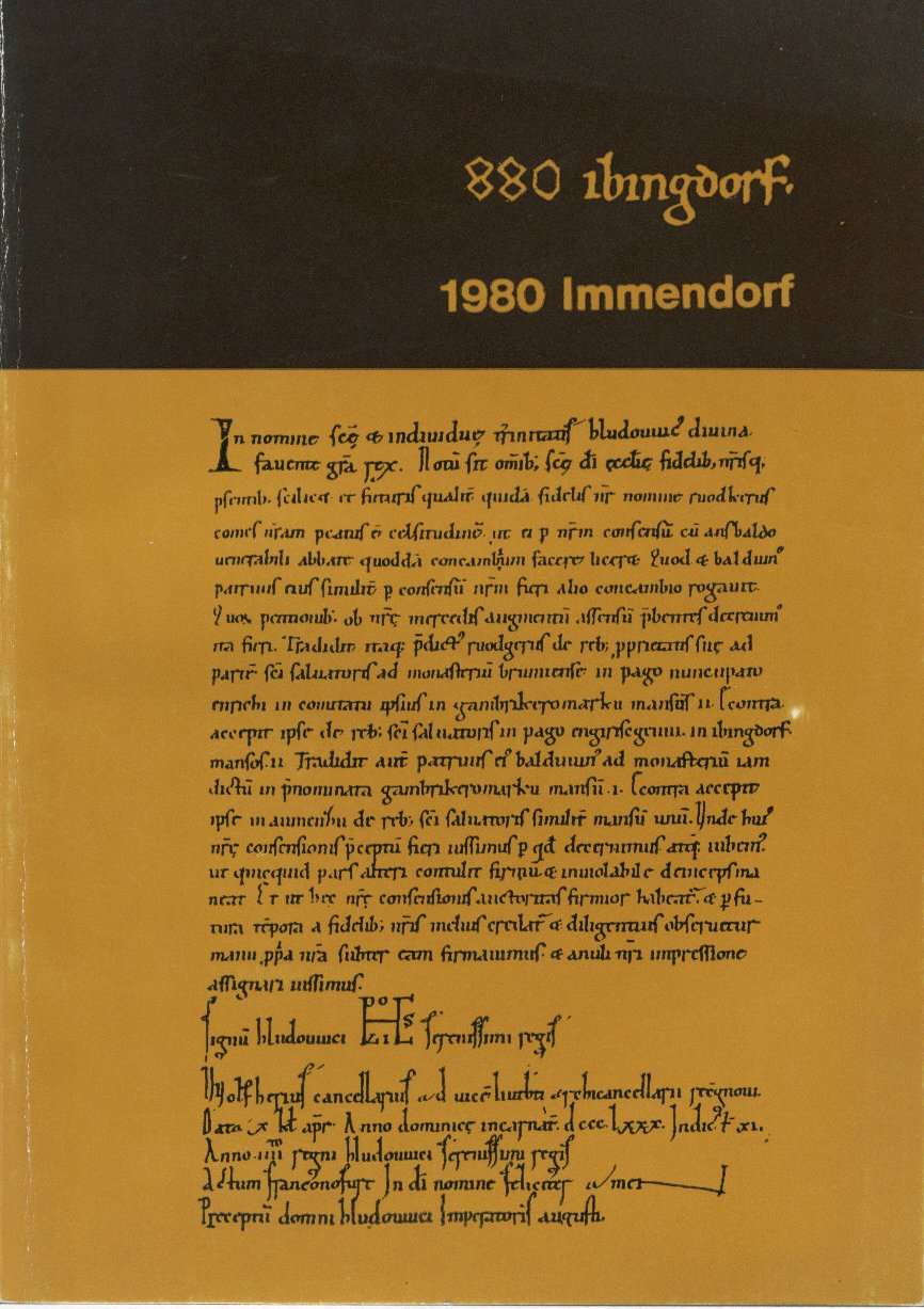 Copy of the latin first naming document of Koblenz-Immendorf (Germany, Rhineland) from the 13. march 880 signed by east franconian king Ludwig III (876–882) in Frankfurt/Main . The Copy of this document in the „Liber aureus“ (Golden Book) of the German town Prüm was made ca. on the year 1100 a.C. and stands today in the city library of Trier, Mosel. This document was published 1980 with a German translation by Dr. Johannes Simmert in the Festschrift: Ortsring Immendorf (Herausgeber) / Hans Rudolf-Perschbach et al. (Redaktion), 1100 Jahre Immendorf 880–1980, S. 17–21, ALFA-Verlag (Koblenz-Neuendorf), 1980, (no ISBN).